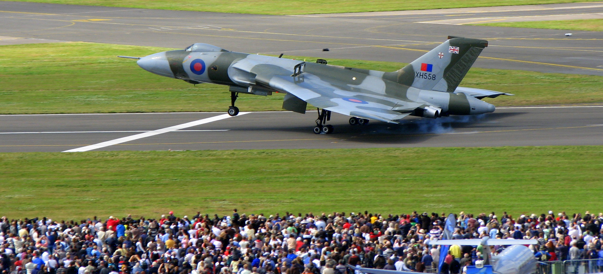 Avro Vulcan XH558 landing on runway 24 at Farnborough Airshow 2008. Picture taken from the terrace of Thales pavilion.